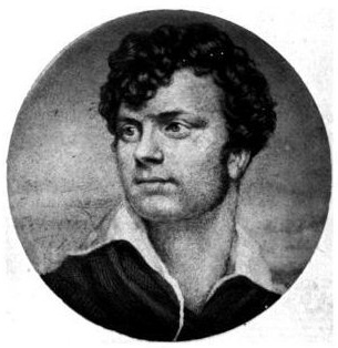 Charles Jeremiah Wells (1798?–1879) Source: 1876 edition of Joseph and His Brethren